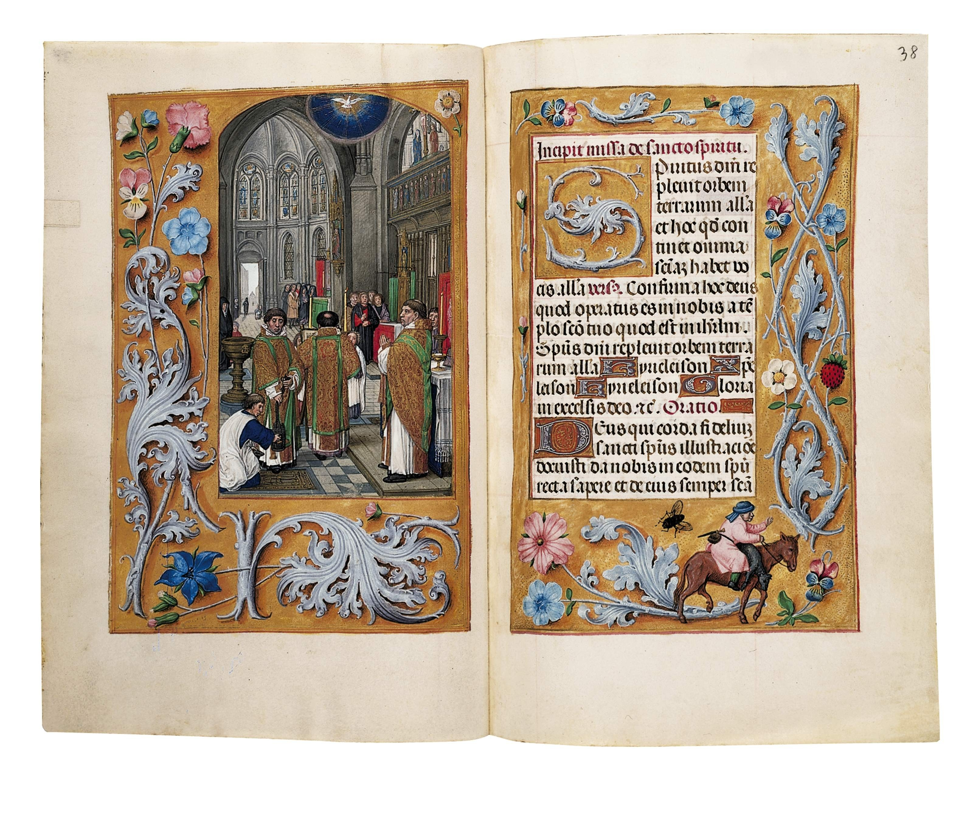 Info Christie's, LotFinder: entry 5766082 (sale 2819, lot 157) Rothschild Prayerbook